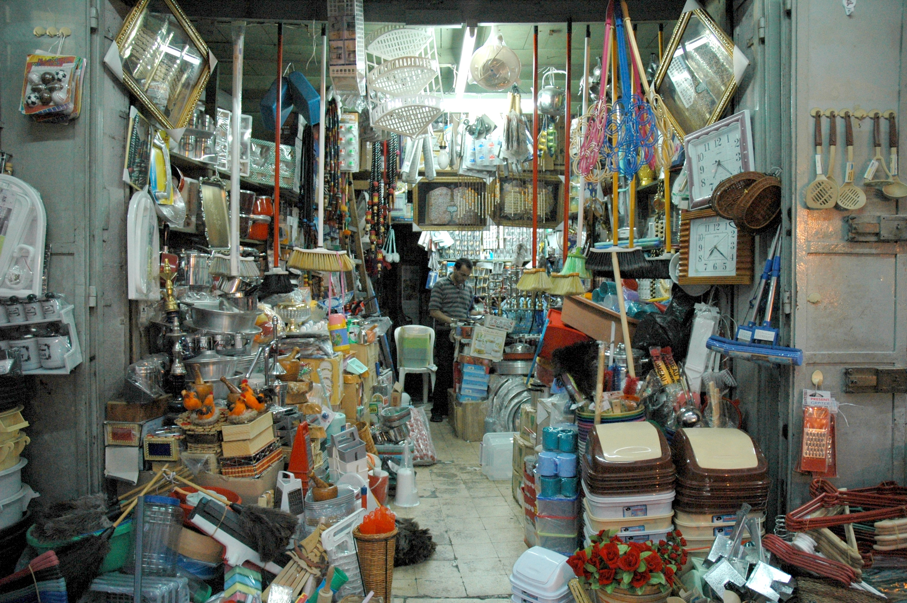 Ramallah. One of the many arab shops lining the streets. various kitchen and household utensils Actually, this arab shop is not in Jerusalem, but in the west bank (Ramallah), as the author went through the Qalandia checkpoint a few hours before (see File:Kalandia checkpoint.jpg and File:Graffiti on Kalandia checkpoint.jpg), and was back to Jerusalem on the next day in the morning (File:Vehicles queuing at checkpoint.jpg) and he took other photos of shops in Ramallah on the same night (File:Mannequins in Ramallah.jpg and File:Shop entrance in Ramallah.jpg)